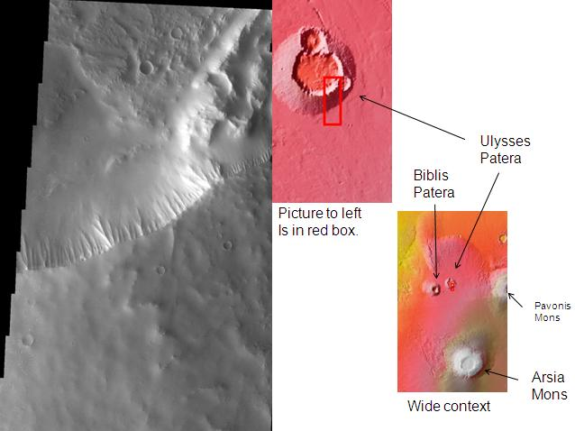 Ulysses Patera as seen by THEMIS. The location is 2.3 degrees north latitude and 121.2 degrees west longitude. Picture taken with Mars Odyssey's THEMIS. Photo credit NASA/JPL/ASU.